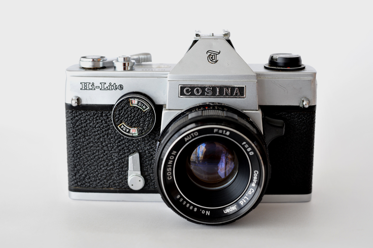 Cosina Hi-Lite with lens Cosinon 50mm/1.8, front view.